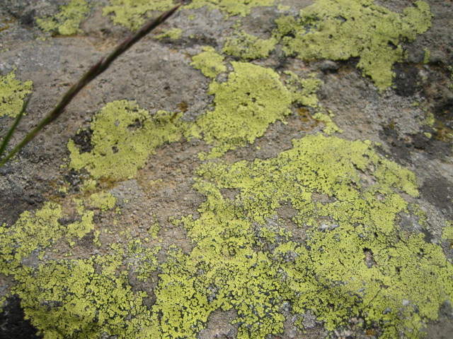 Lichen in Écrins national park, French Alps